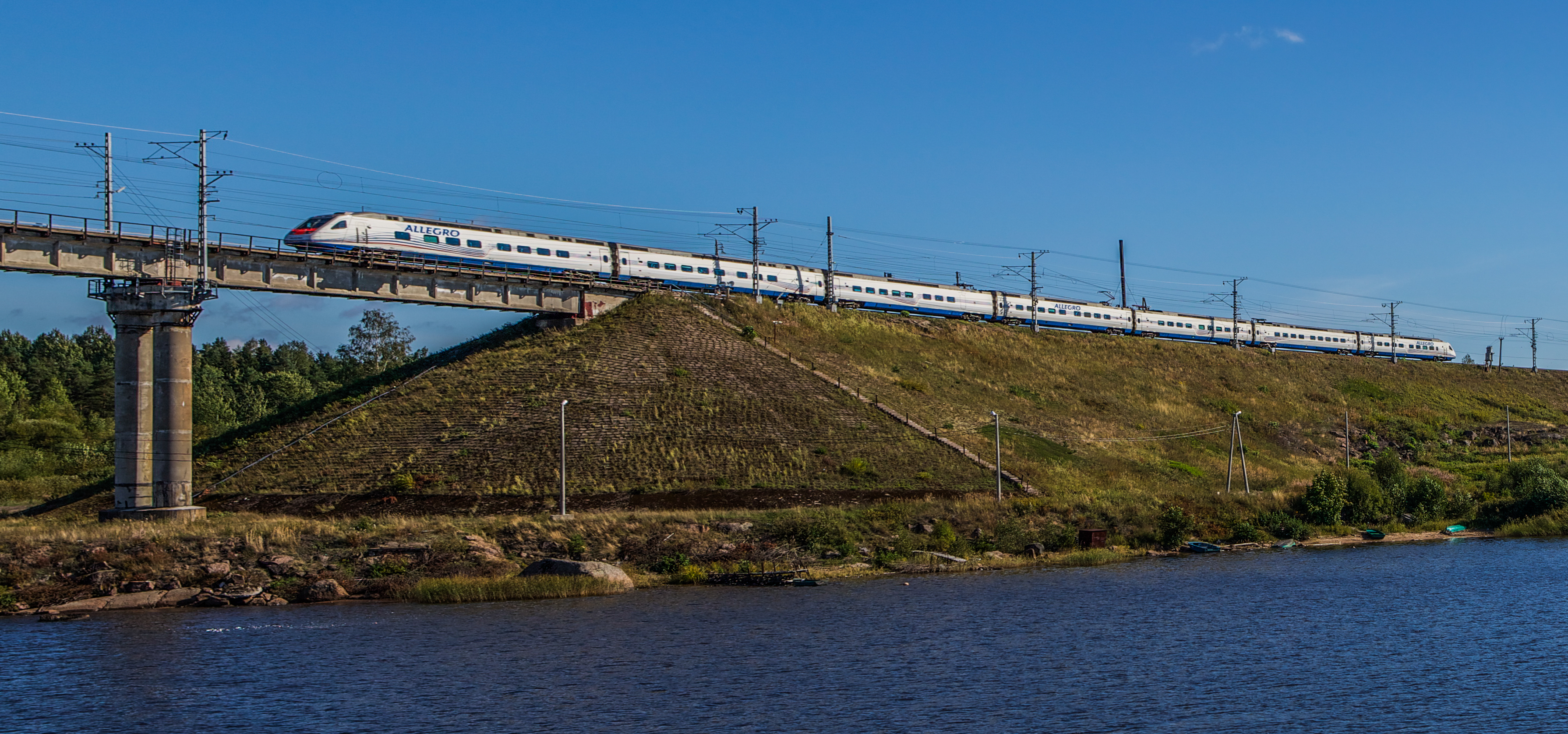 Allegro Train Helsinki - Saint Petersburg in Vyborg